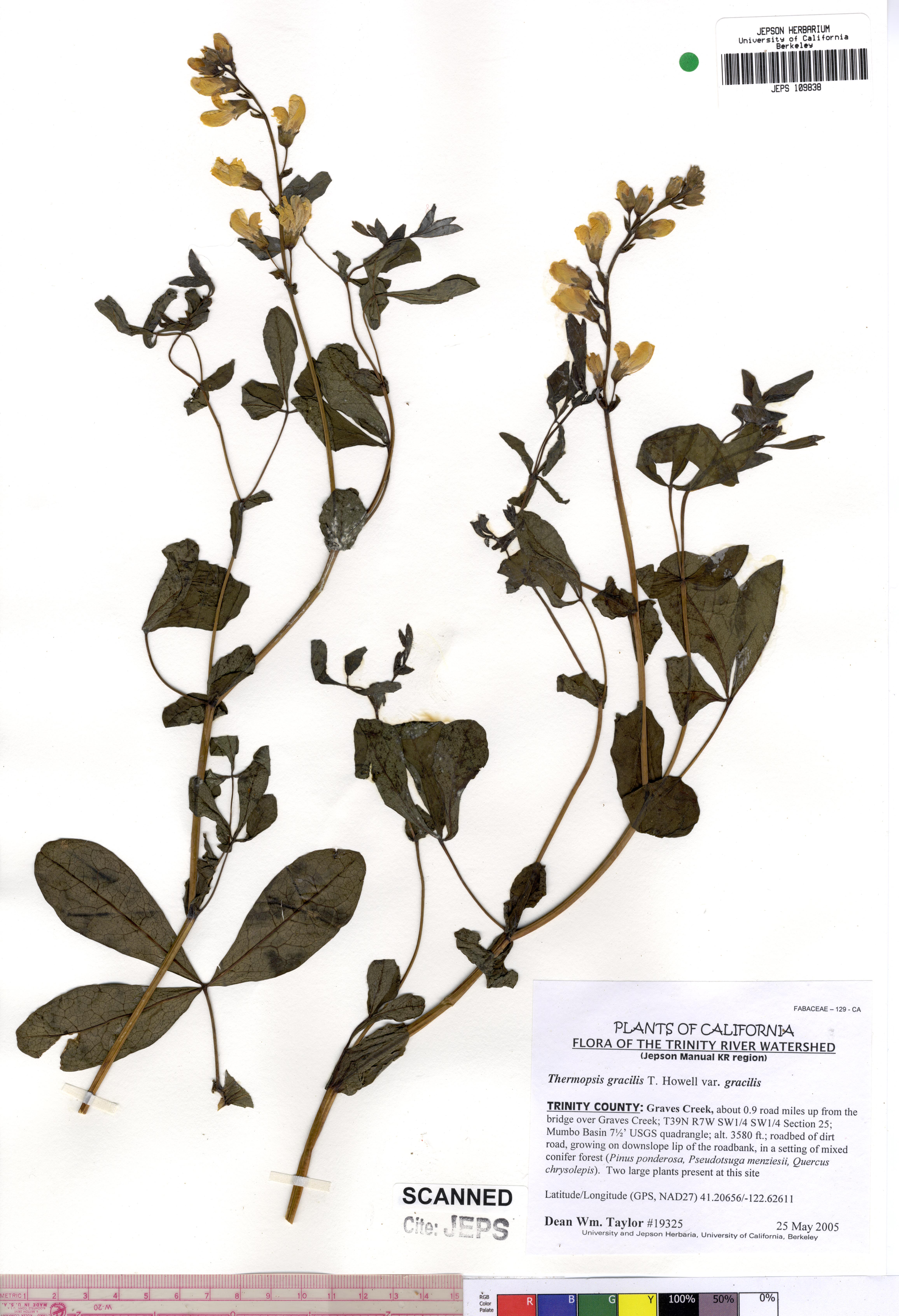 Thermopsis gracilis JEPS109838